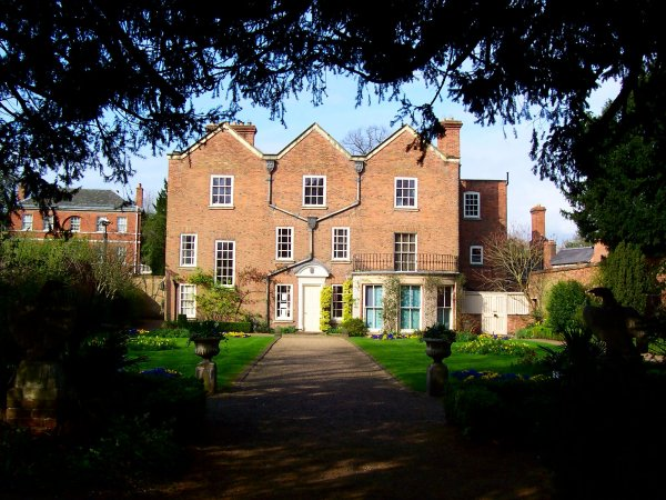 Belgrave Hall Museum This is Belgrave Hall's front as seen from the garden. It has been a museum for 70 years and currently it is furnished and decorated as a town house in 1890. The extensive gardens are beautiful and amazingly quiet, despite a major road beyond the wall.